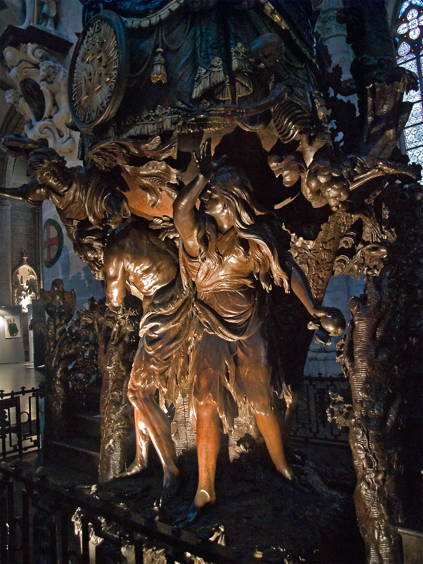 Adam and Eve expelled from Eden, detail of the pulpit carved by Hendrik Frans Verbruggen (1699), St. Michael and St. Gudula Cathedral, Brussels, Belgium.